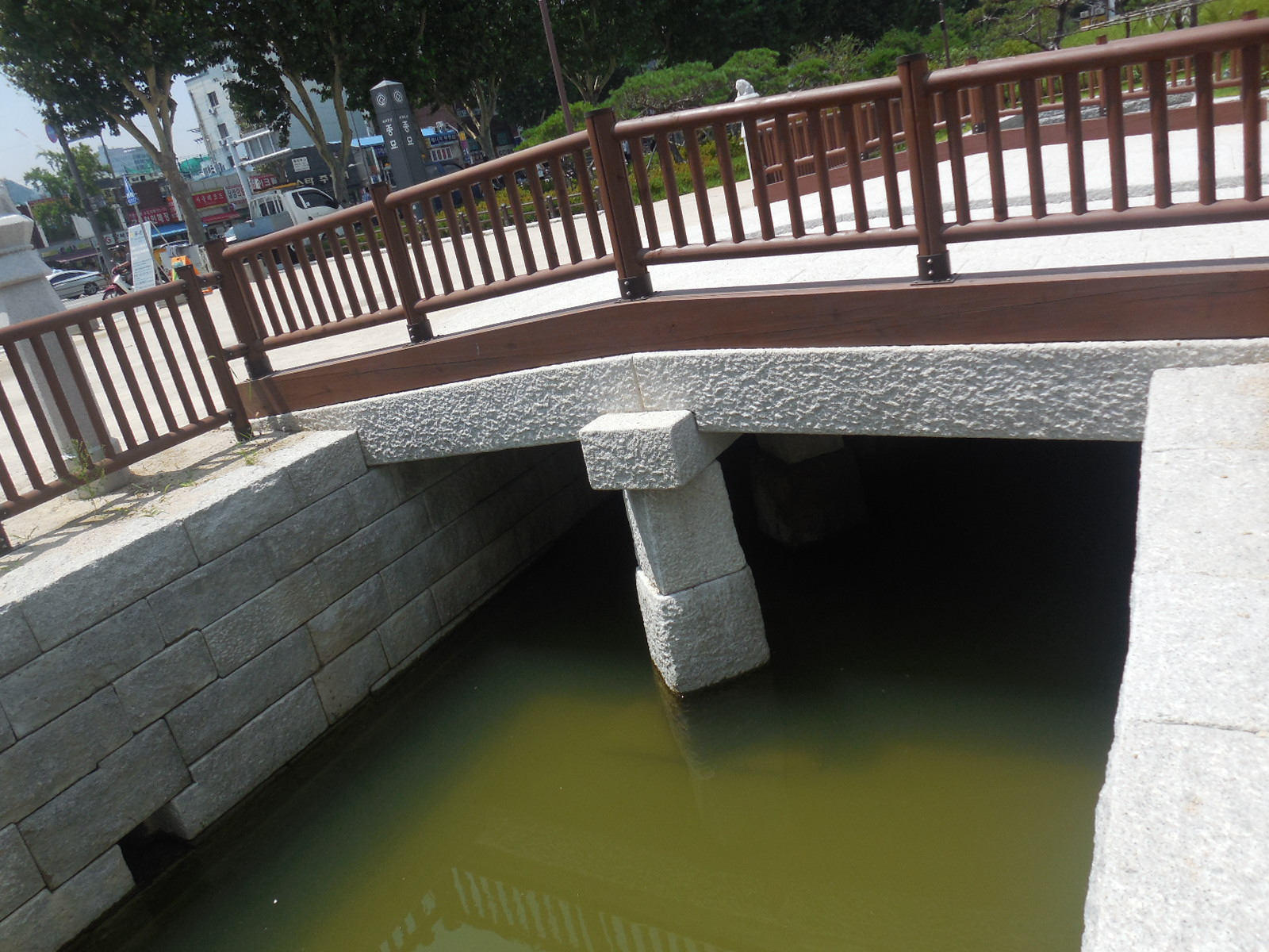 Jongmyojeongyo Bridge, a bridge that leads to the main gate of Jongmyo